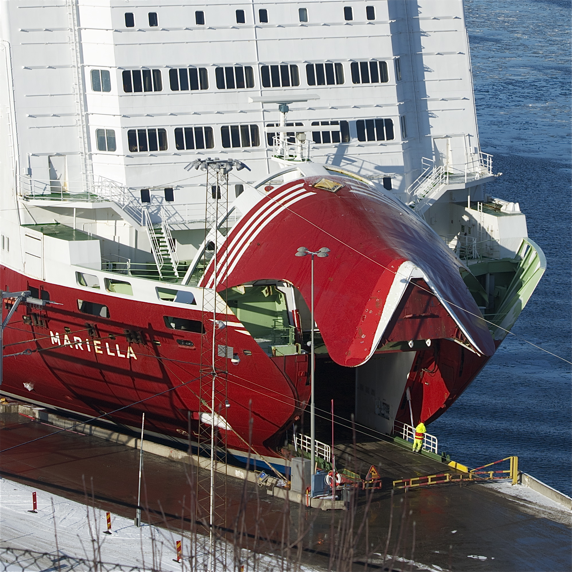 Bow visor, M/S Mariella.